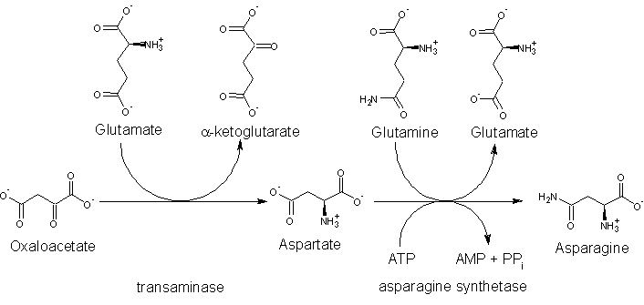 Biosynthesis of asparagine